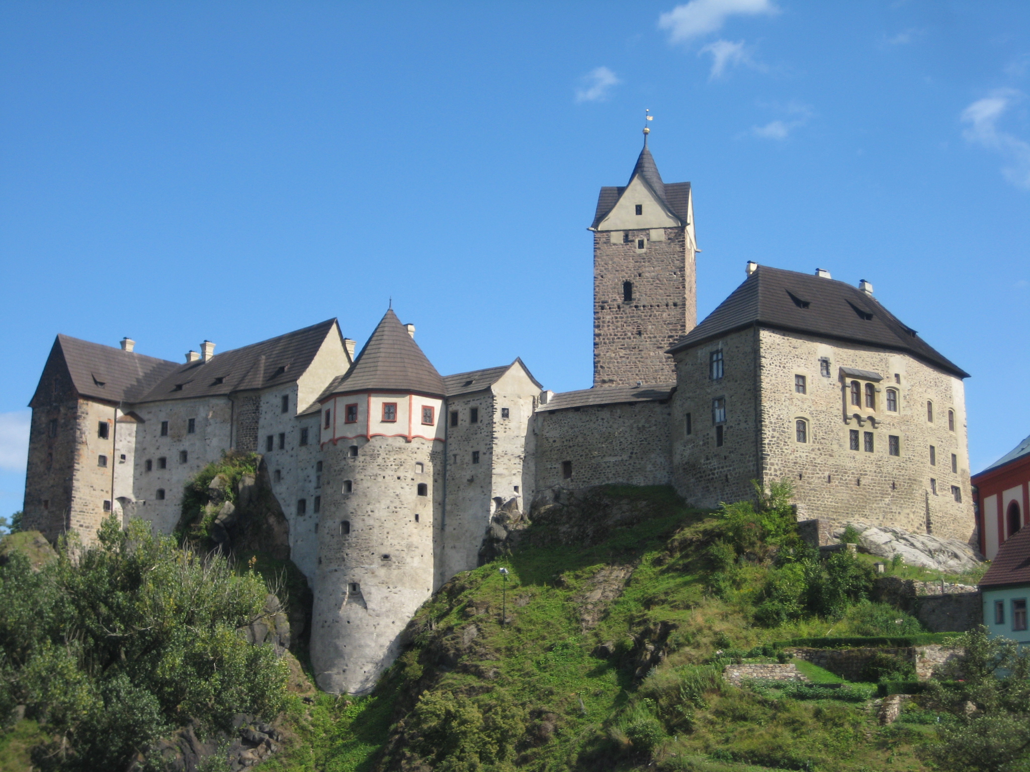 Loket Castle